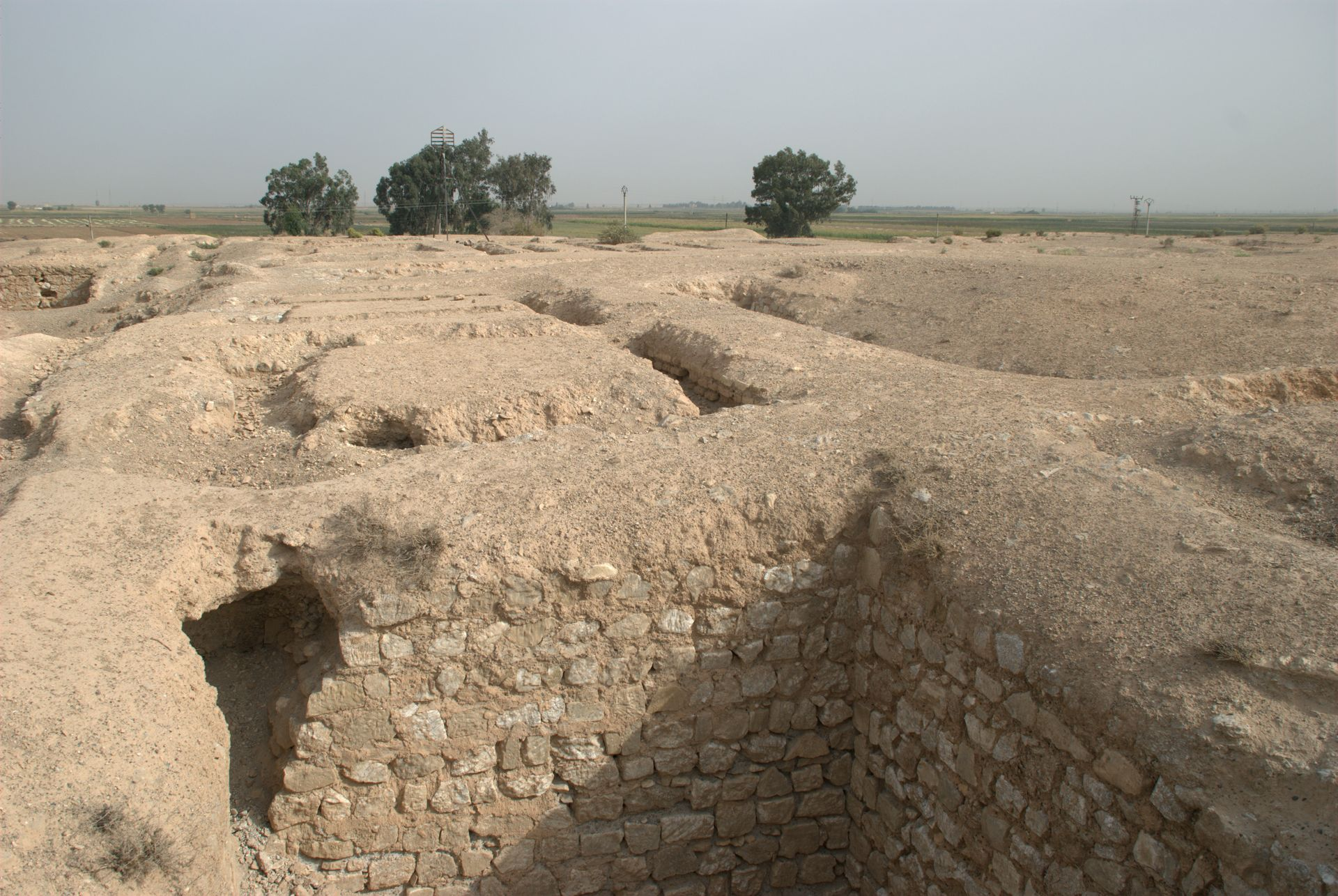 Heraqla, near ar-Raqqah, Syria, top